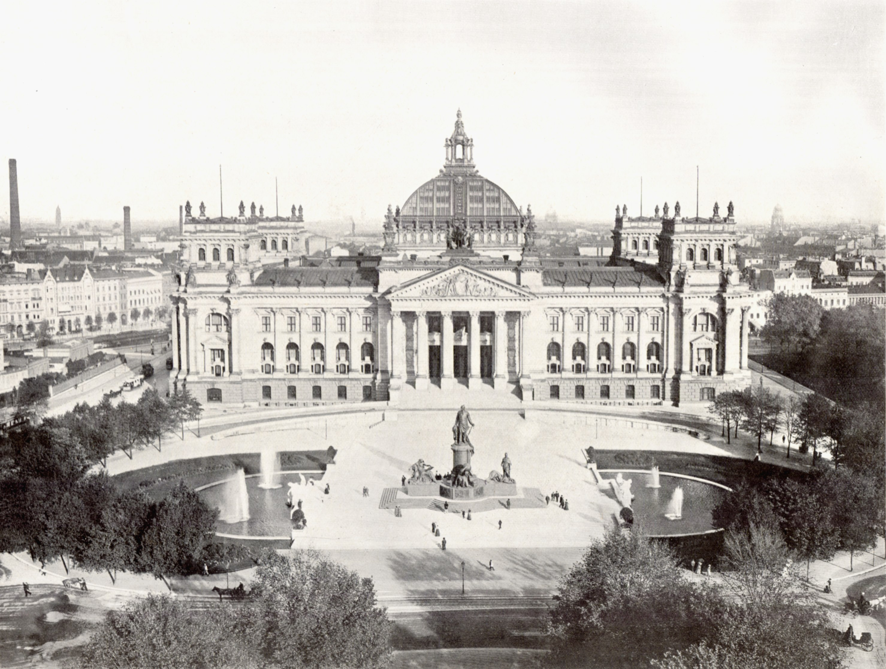 Berlin, memorial to Otto von Bismarck in the original position in front of the Reichstag around 1900